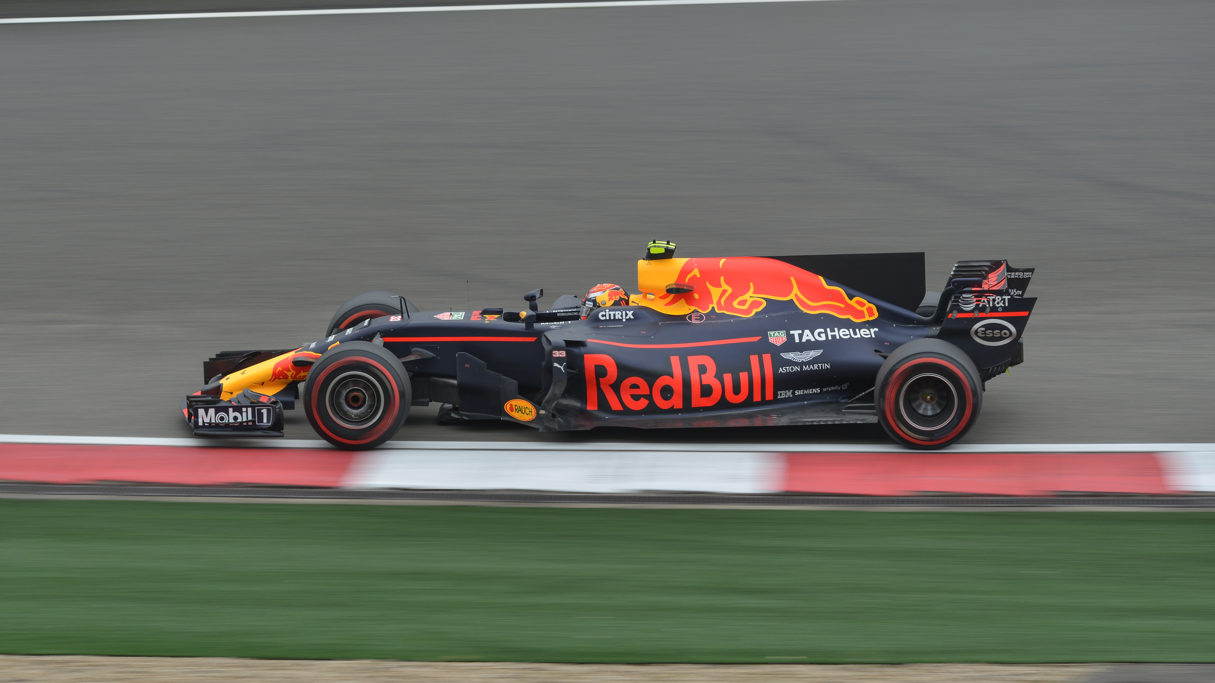 Unbelievable start and fantastic race.